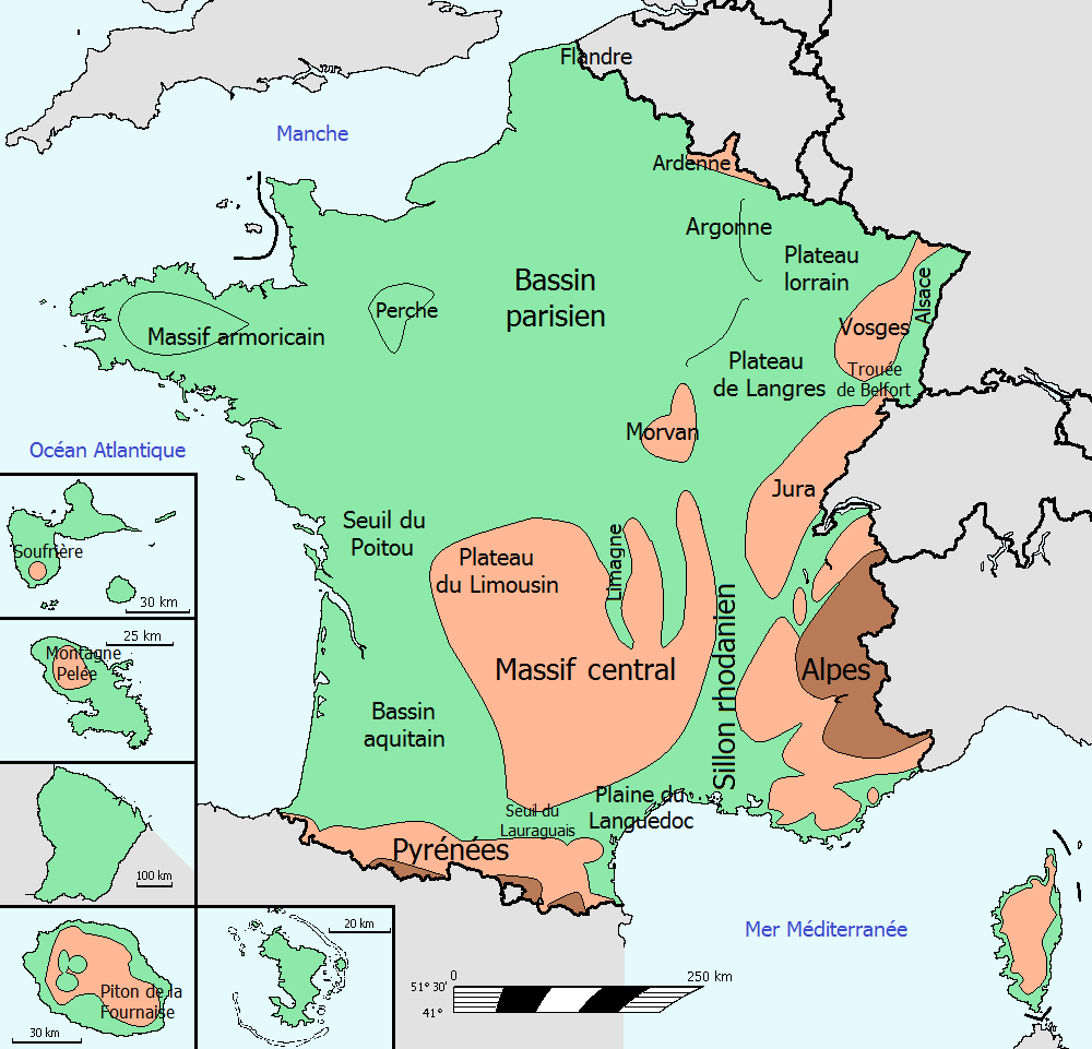 Relief map of France (scolar).